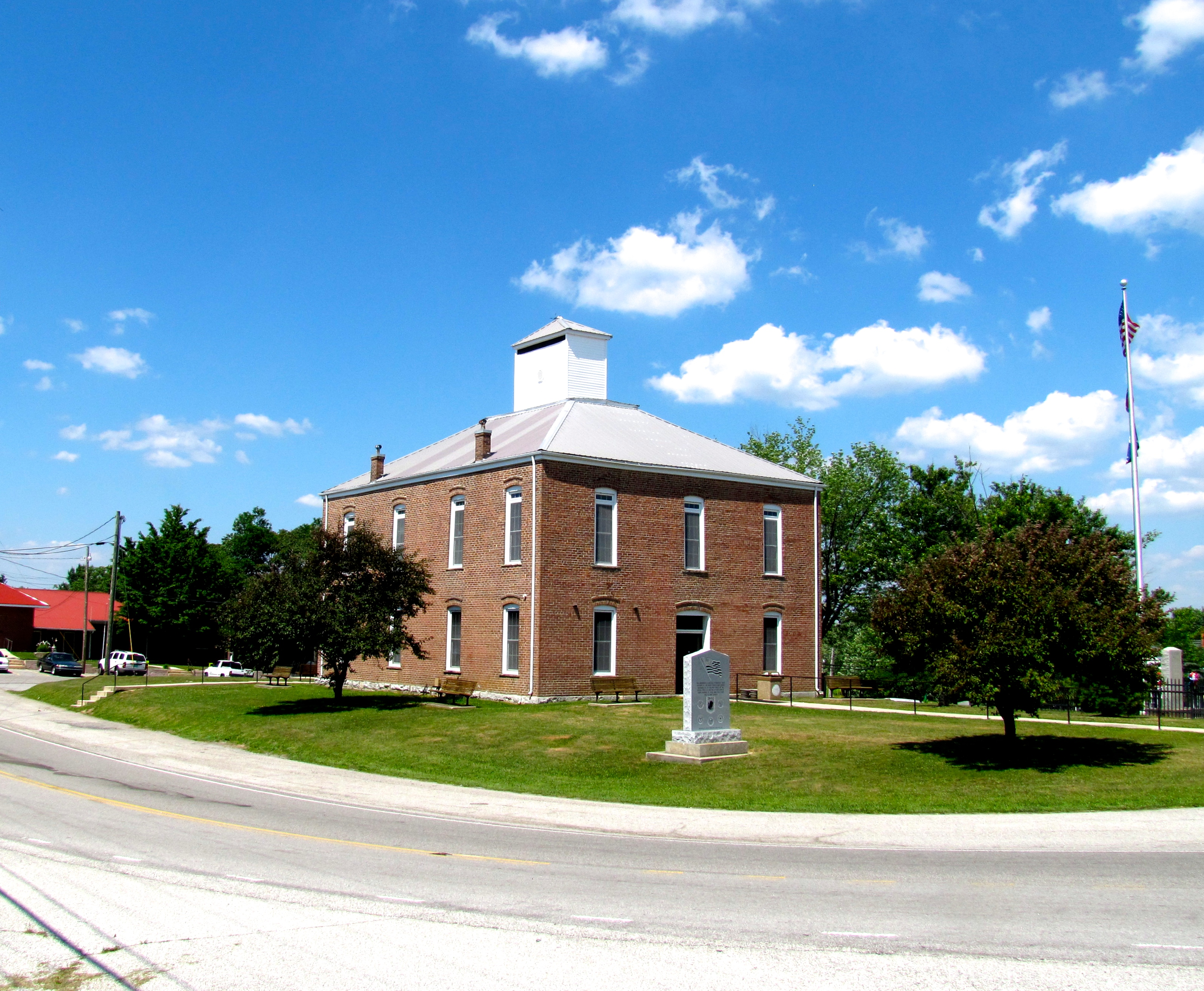 Courthouse square in Spencer, Tennessee, United States. Tennessee State Route 30 is in the foreground.